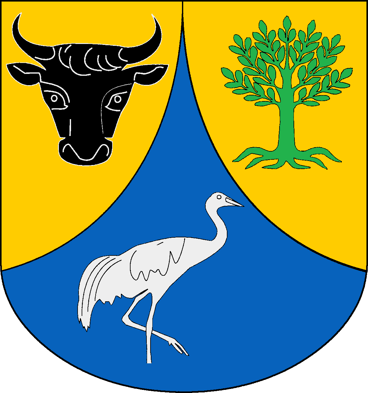 Coat of arms of the municipality Horst in Schleswig-Holstein, Germany.